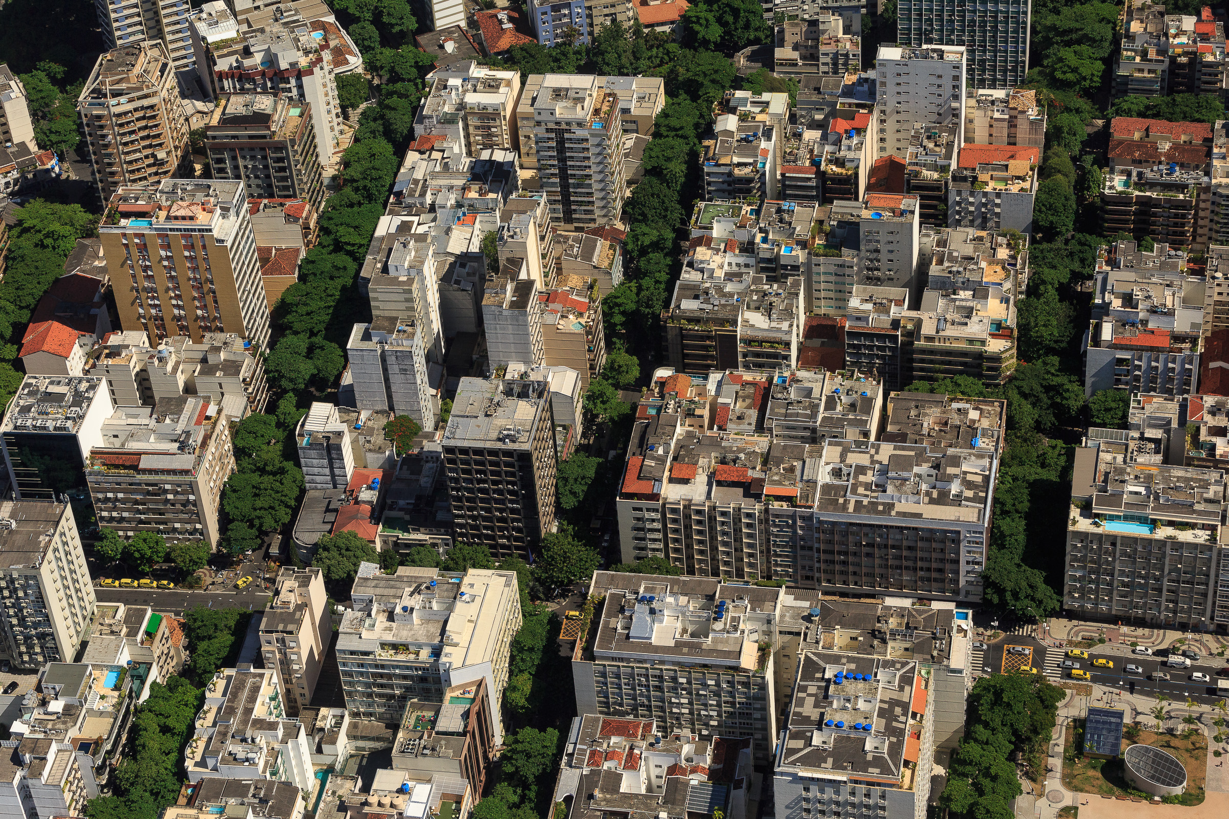 Vista aérea do Bairro do Leblon, localizado na cidade do Rio de Janeiro.